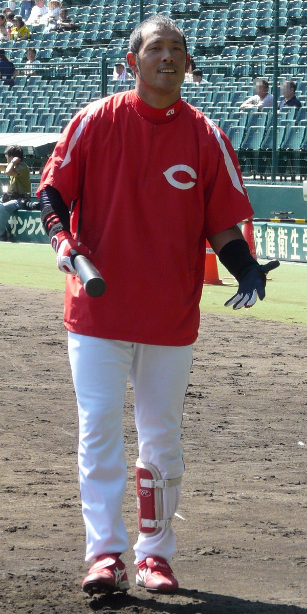 Jun-Hirose